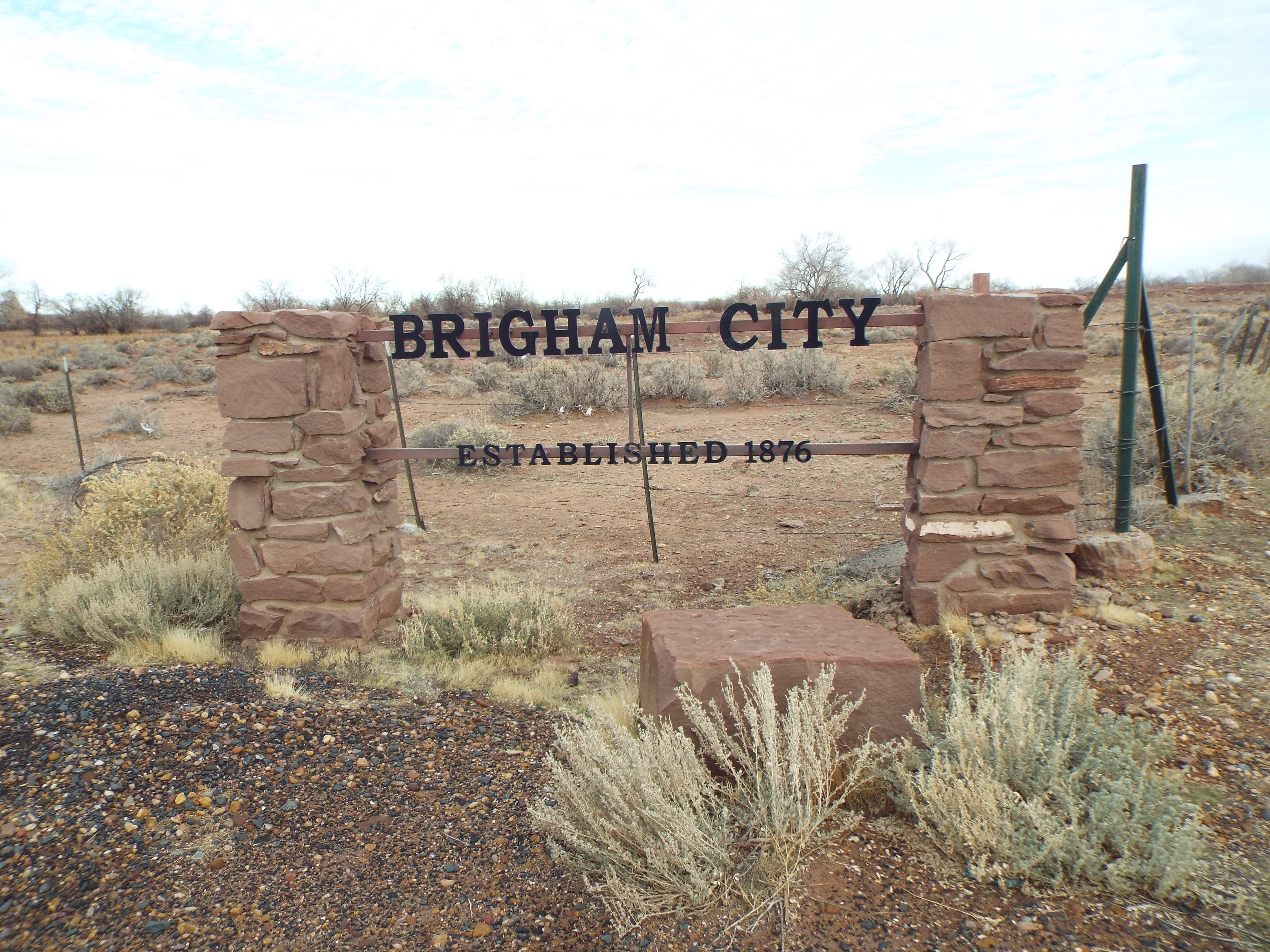 Historic Brigham City in Winslow, Arizona established in 1876